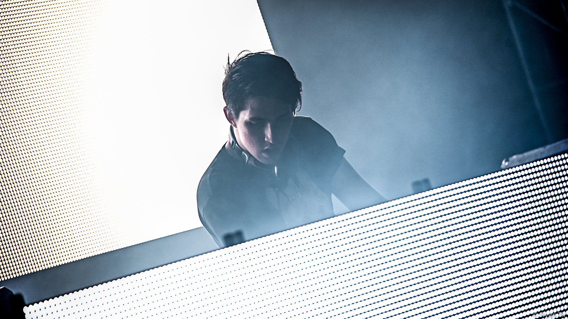 Porter Robinson at Kool Haus in 2013